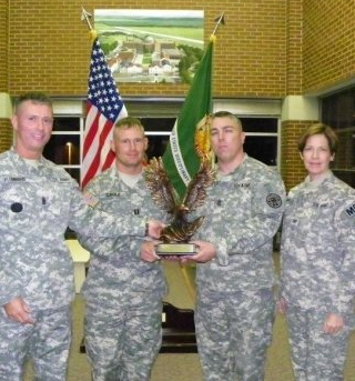 The 526th Military Police Company being presented the BG Thomas F. Barr Award in 2009 Left to right: CSM Plemmons (ACC CSM), CPT Cagle (526th MP CO CDR), 1SG Baker (526th MP CO 1SG), COL Miller (ACC CDR).